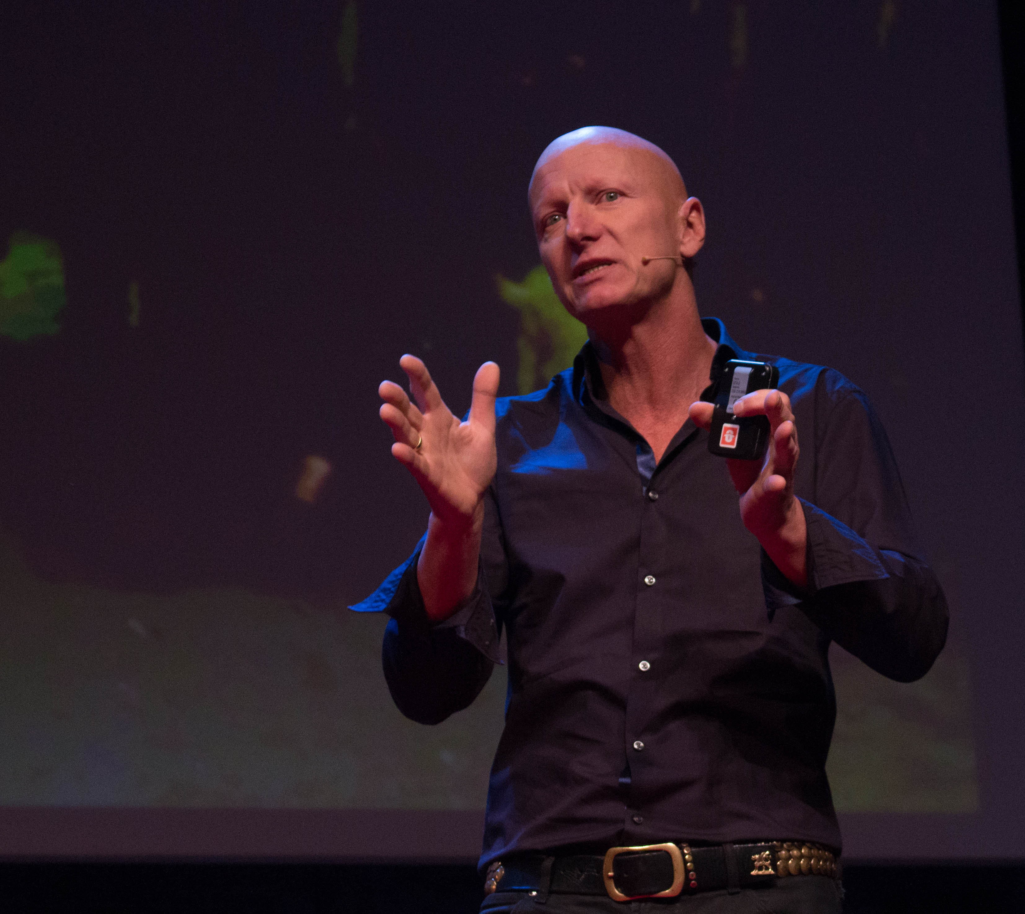 Jimmy Nelson (photographer) at TEDxAMS 2014